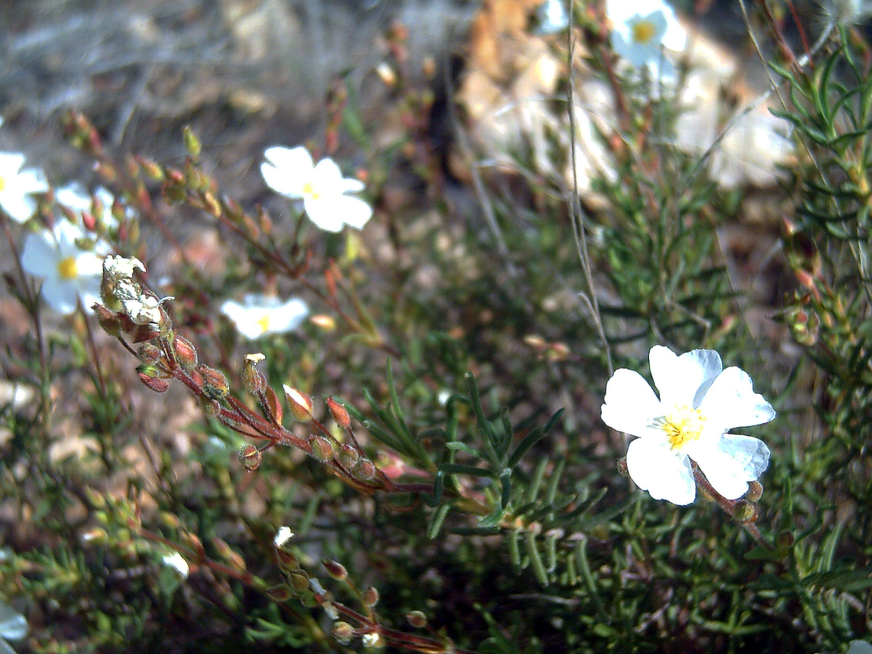 Helianthemum violaceum blossom and leaves, Sierra Madrona, Spain